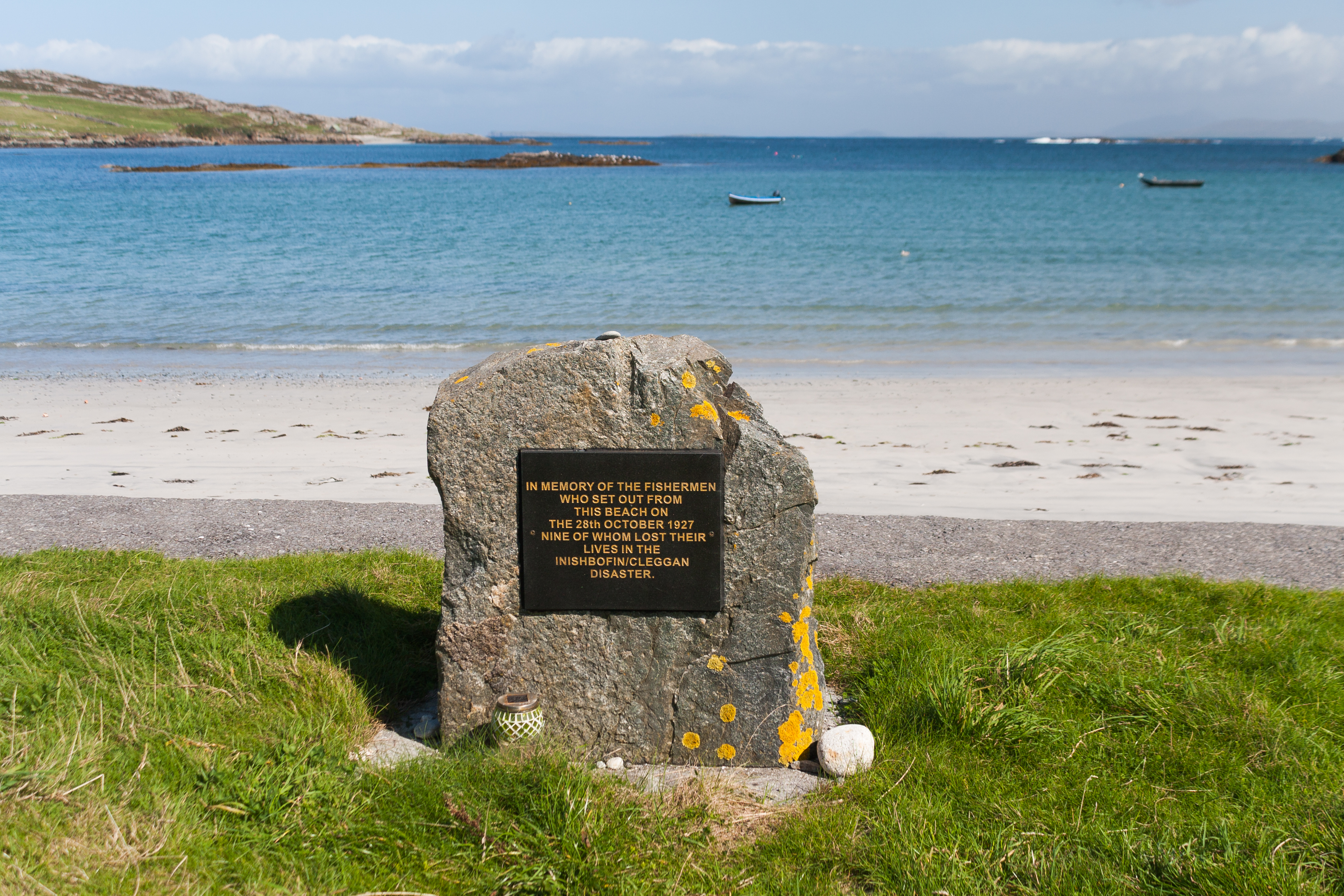 Memorial at East End Bay: “In memory of the fishermen who set out from this beach on the 28th October 1927 nine of whom lost their lives in the Inishbofin/Cleggan disaster.”